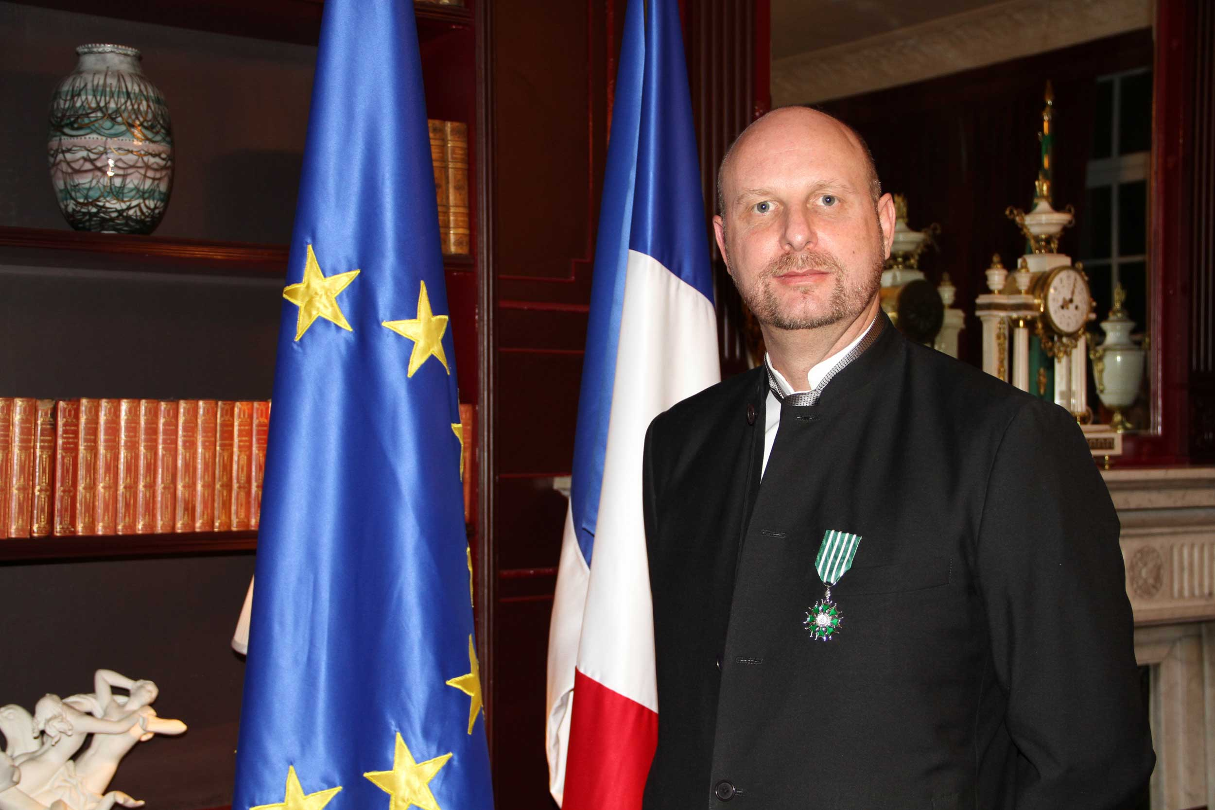 Photo of José Rubén Marshall Tikalova receiving the Ordre des Arts et des Lettres of France in grade of Chevalier